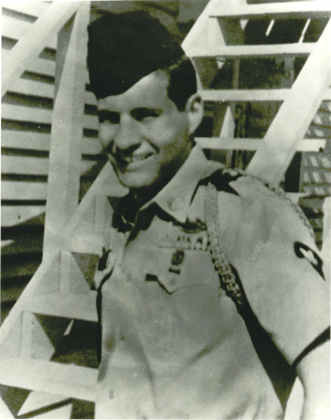 United States Army Sergeant John N. Holcomb, posthumous Medal of Honor recipient for his actions in the Vietnam War